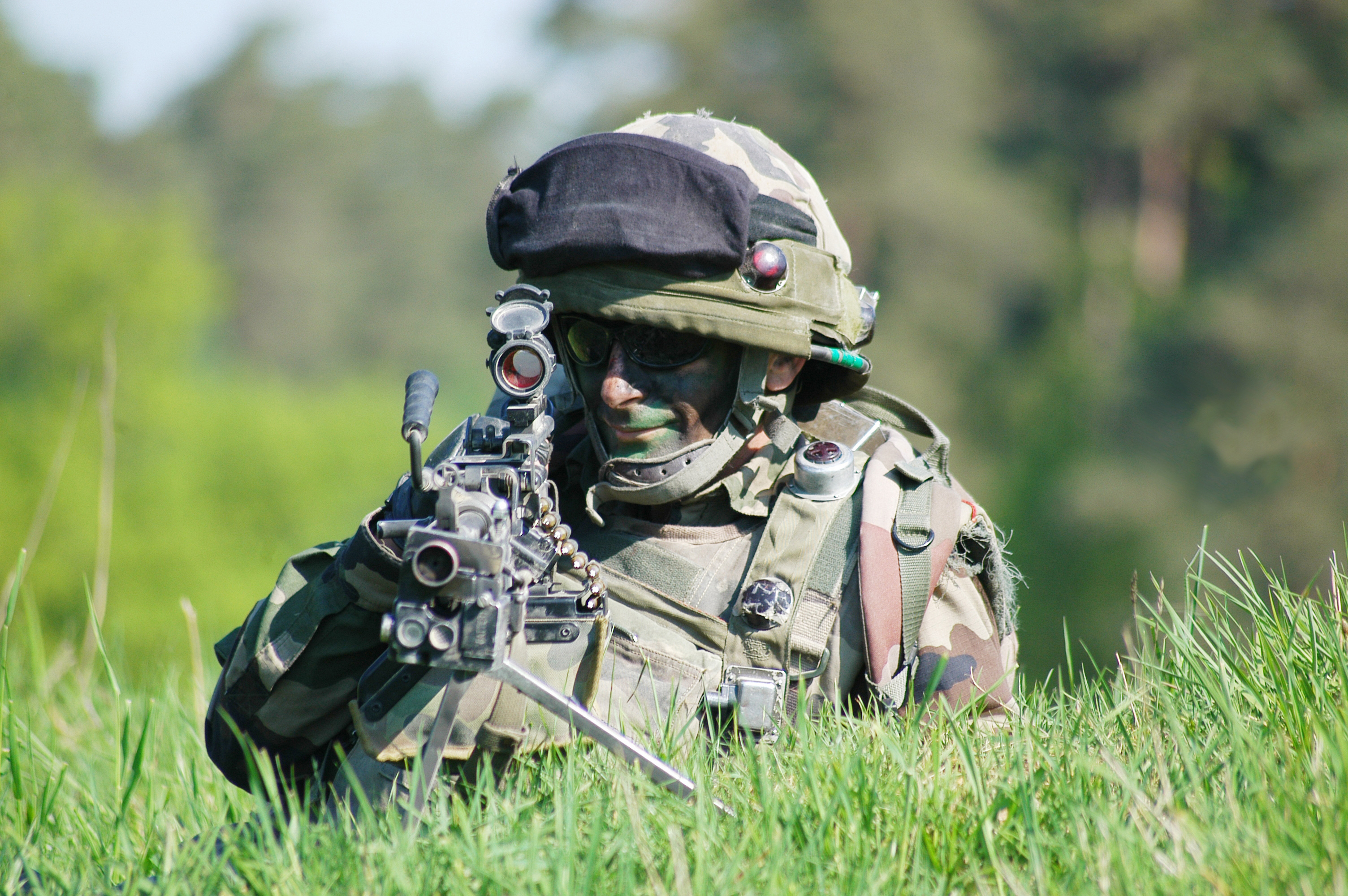 A French Army (Armée de terre, in French) soldier and a FN Minimi Para provides rear security in the Joint Multinational Readiness Center training area in Hohenfels, Germany, May 14, 2008. The NATO Operational Mentorship and Liaison Team is preparing soldiers for unit readiness prior to a deployment.